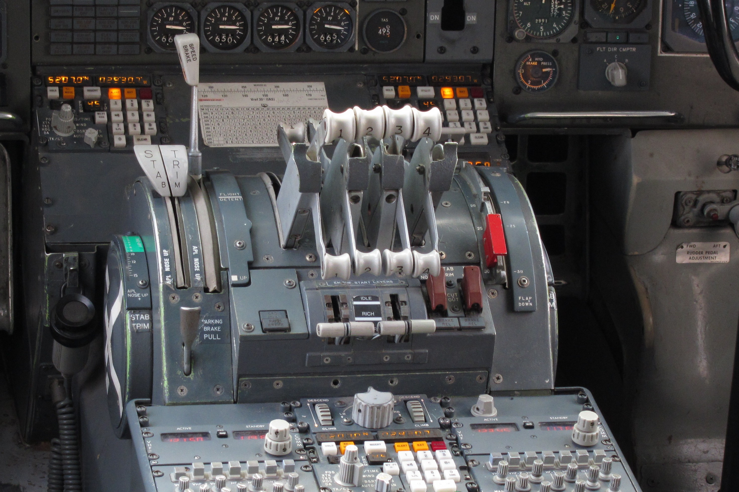 Center panel of the cockpit of the Air France Boeing 747-100 at the Bourget museum (registered F-BPVJ). The throttle levers, horizontal trim, and spoiler controls are clearly visible.